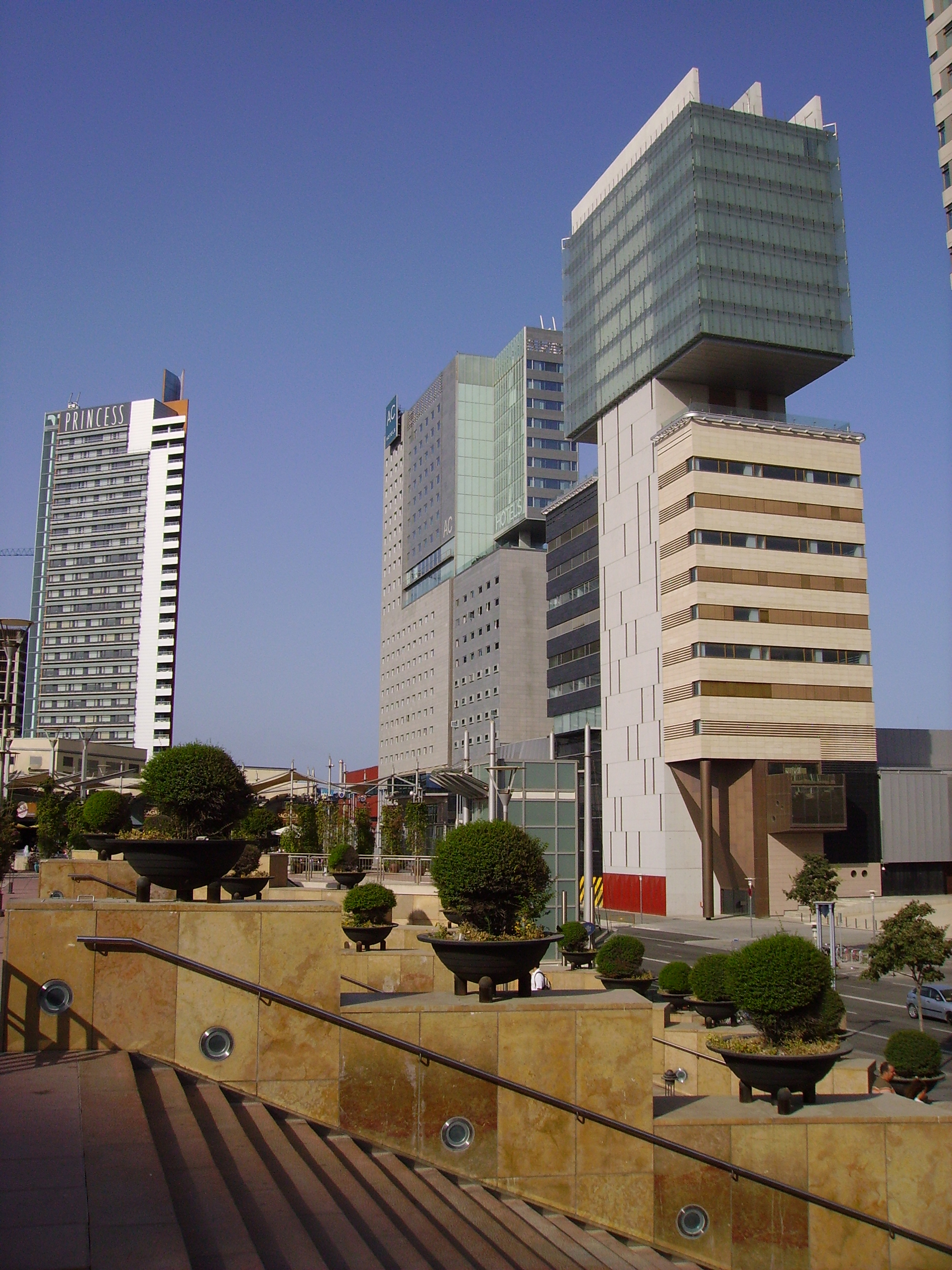 Buildings in Diagonal Mar (Barcelona).